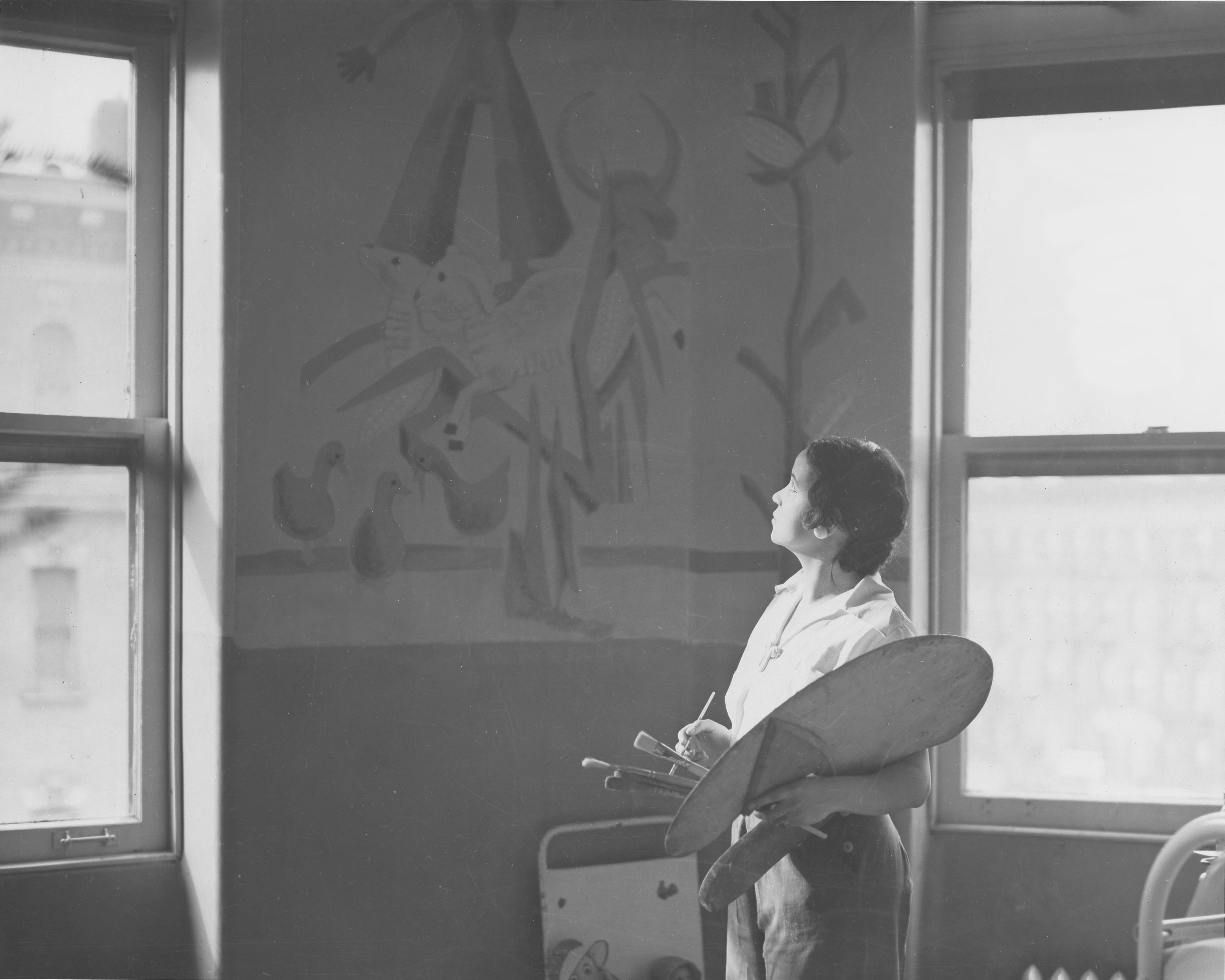 Lightfoot holding brushes and a palette gazing at her mural. Identification on verso, left (handwritten and stamped): Title: "Mother Goose Rhymes"; Artist: Lightfoot, Elba.Identification on verso, right (handwritten and stamped): Federal Art Project W.P.A.; Photographic Division; 235 East 42nd Street; New York City Location: Harlem Hospital, Lenox Ave & 136 St.; Date: 1/4/38; Negative No.: 2677-4; Photographer: Eisenman.